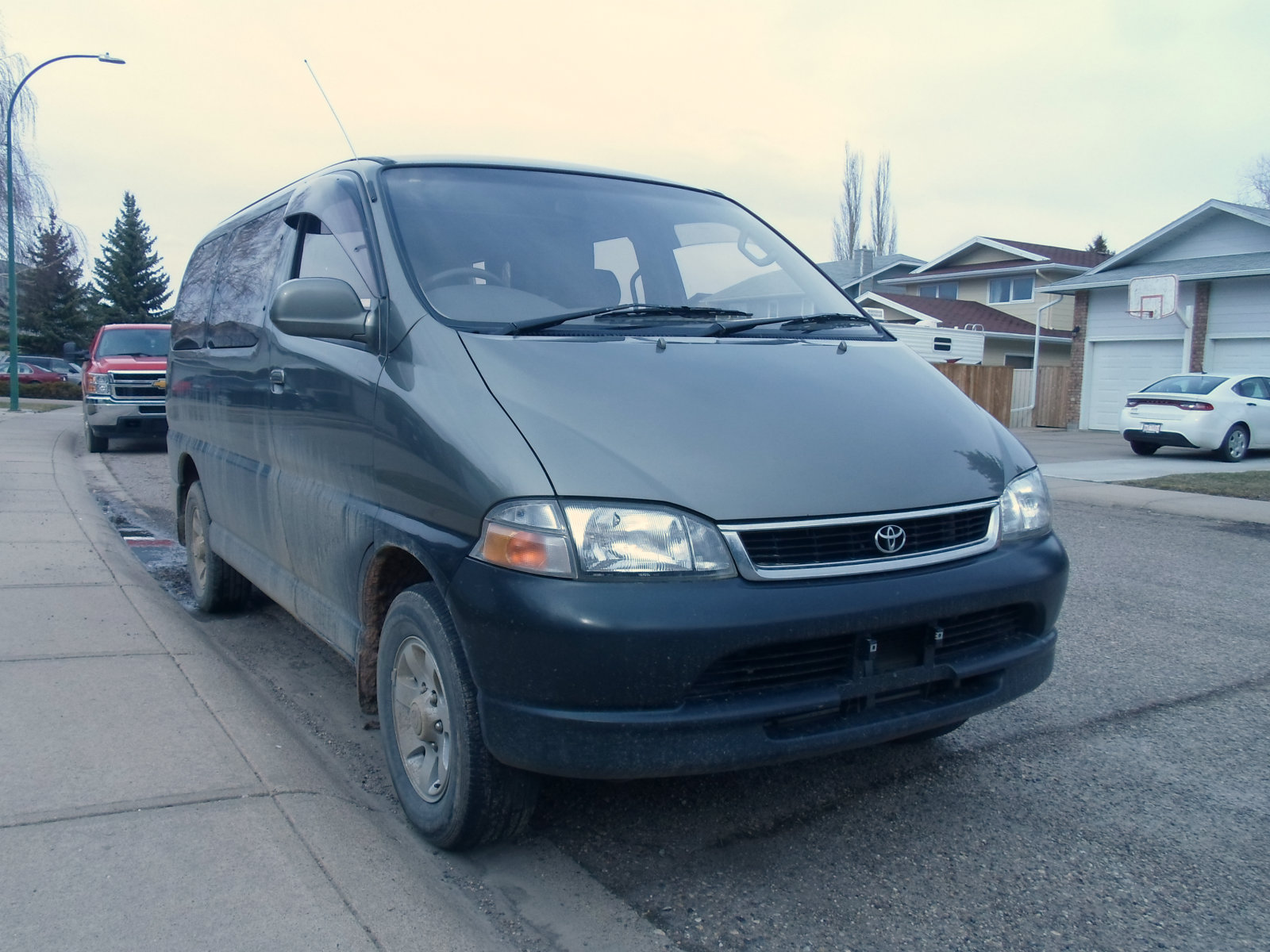 A right hand drive Toyota Granvia 30D van imported from Japan.